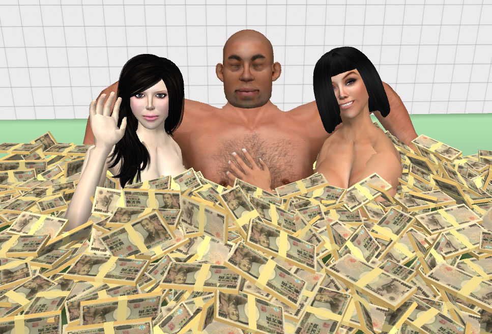 A man in the bathtab filled with stack of bills is a popular icon of commercial photography for good-luck charm in Japan